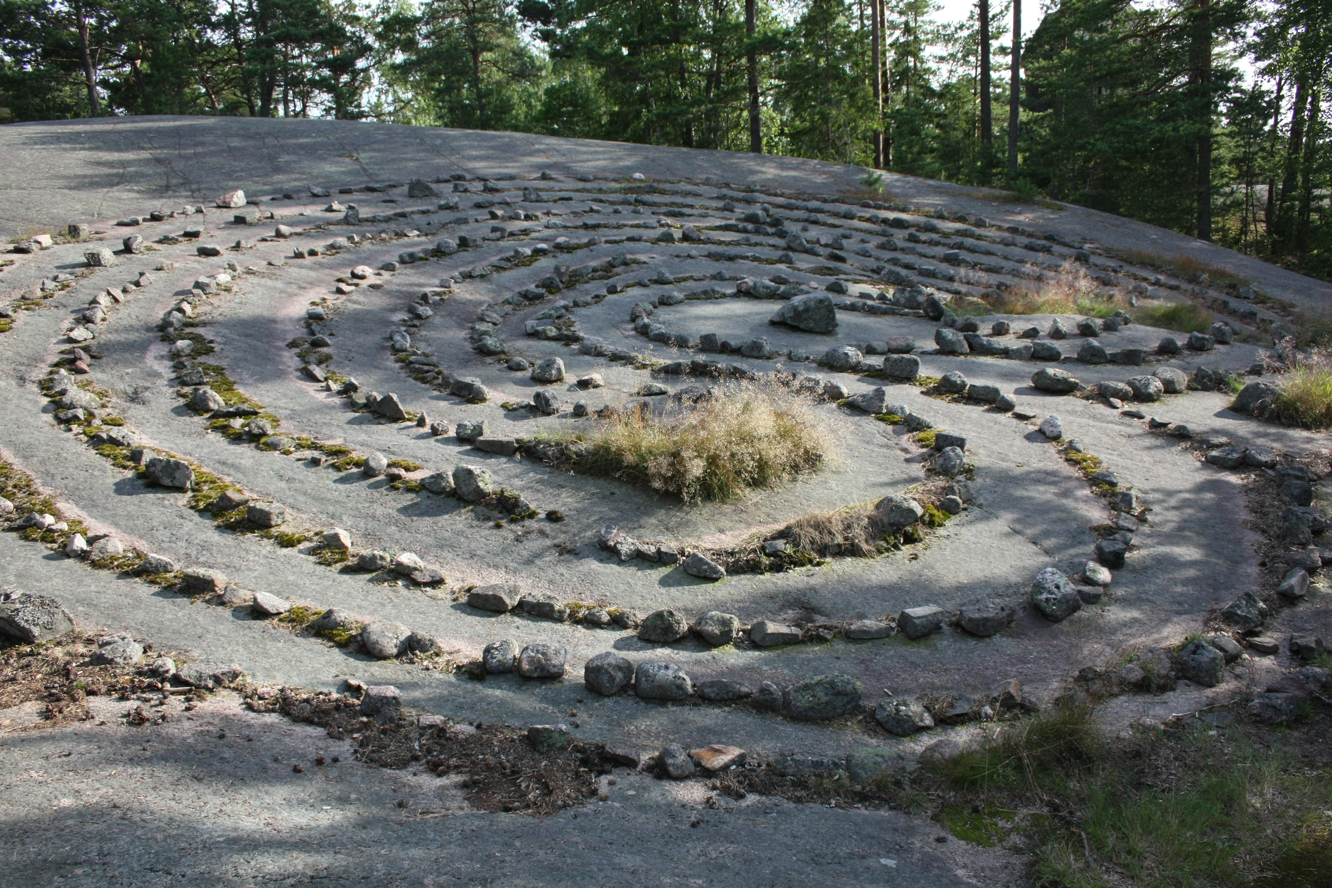 Jungfrudansen, stone labyrinth in Finby near Nagu, Archipelago trail, Finland.